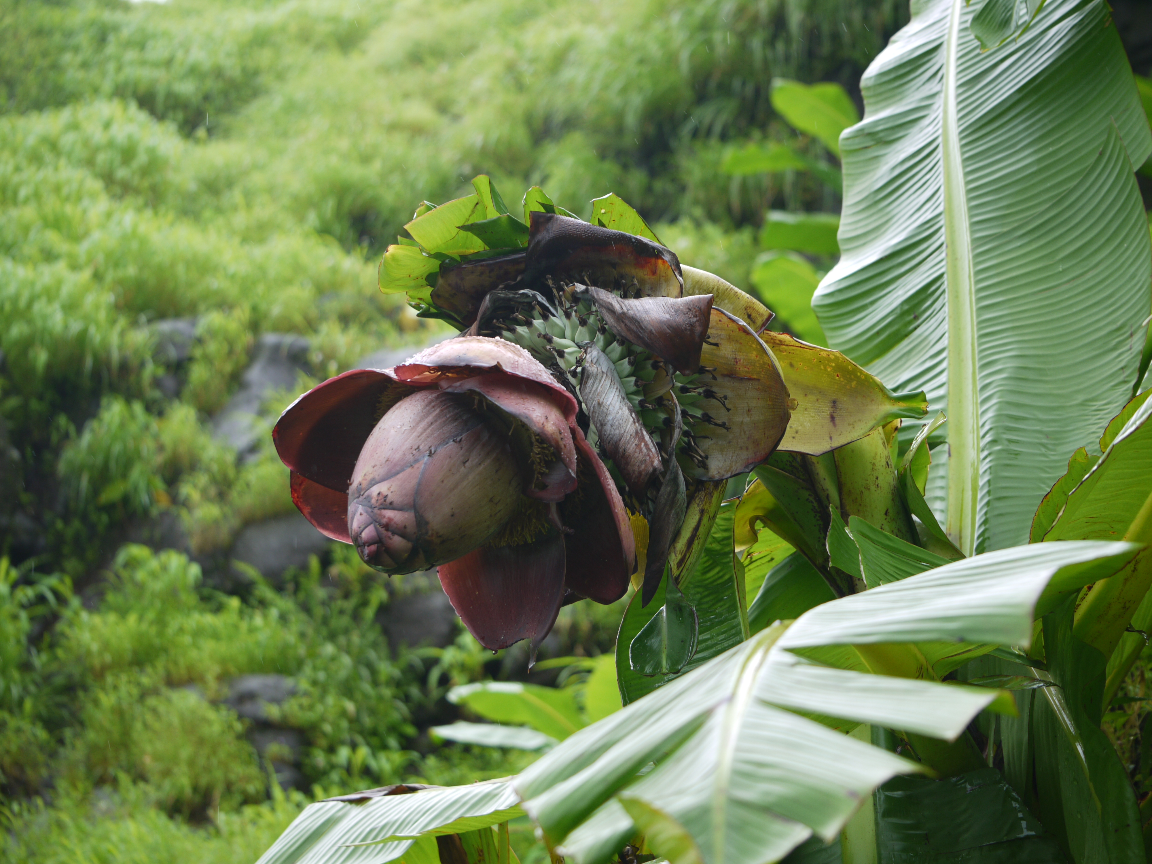 Musaceae (banana family) » Ensete superbum en-SET-ee -- transcription of the plant's vernacular name soo-PER-bum -- meaning, superb commonly known as: rock banana, wild plantain • Hindi: जंगली केला jungli kela • Kannada: ಕಾಡು ಬಾಳೆ kaadu baale, ಕಲ್ಲು ಬಾಳೆ kallu baale • Konkani: रान क्यांळे raan kyaanle • Malayalam: കല്ല് വാഴ kall vazha • Marathi: चवेणी chaveni, रानकेळ raankel • Sanskrit: बहुजा bahuja • Tamil: கல்வாழை kal-valai, காட்டுவாழை kattu-valai • Telugu: అడవి అరటి adavi arati Endemic to: Western Ghats and some other hills of peninsular India References: Flowers of India • Wikipedia • users globalnet • DDSA